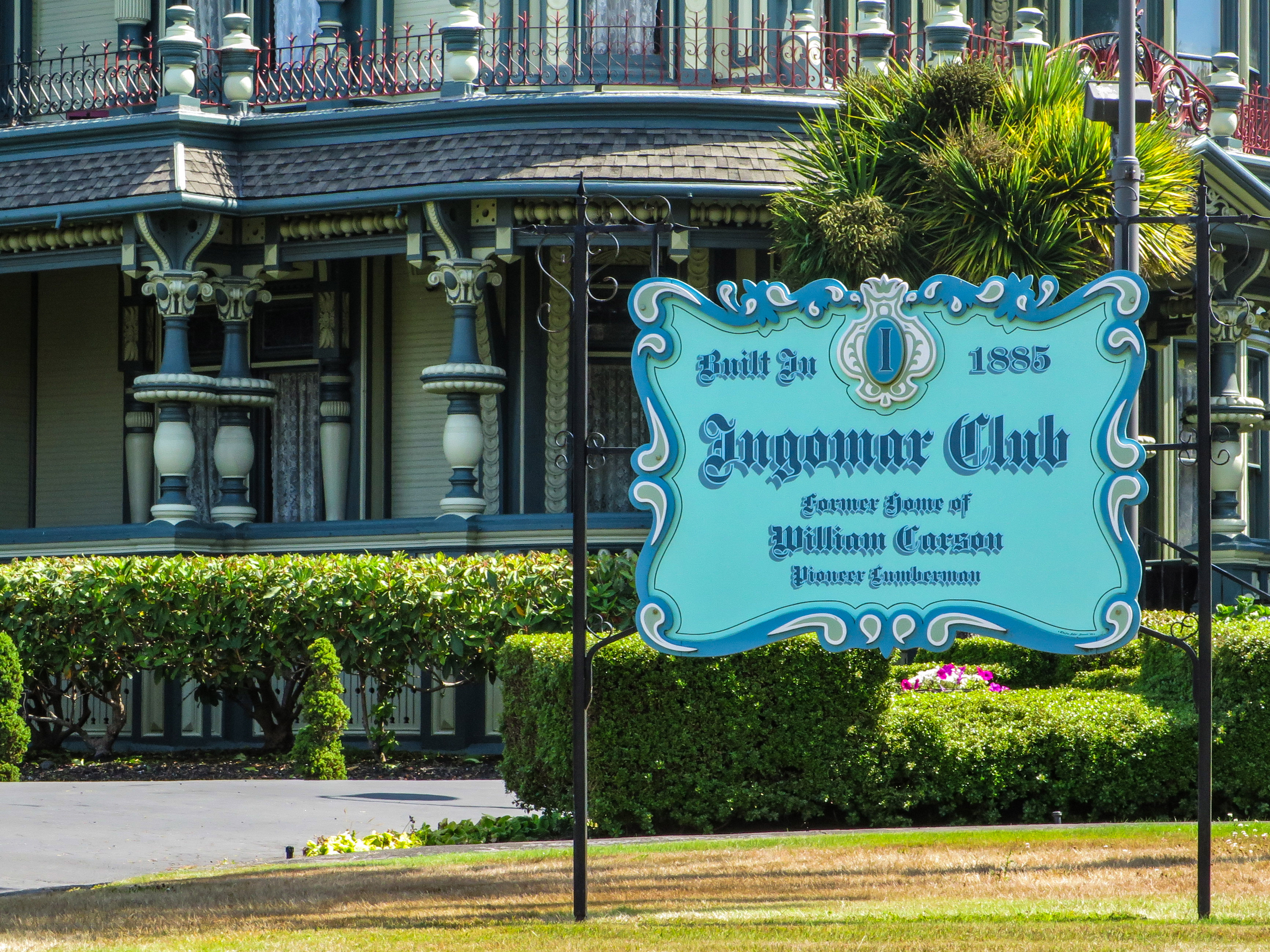 Carson Mansion in the Eureka, California Historic District